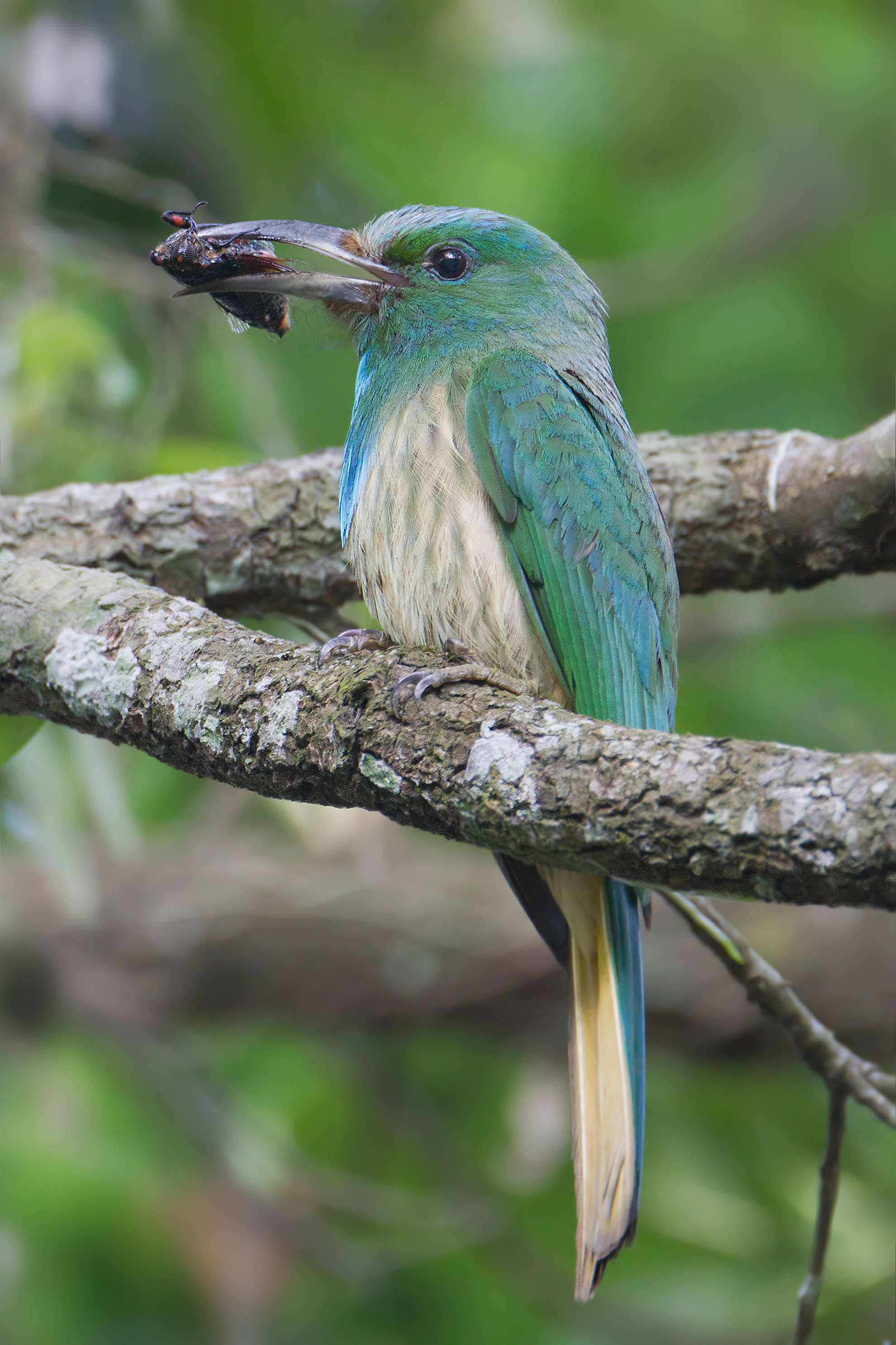 Blue-bearded Bee-eater (Nyctyornis athertoni), Khao Yai National Park, Nakhon Ratchasima, Thailand